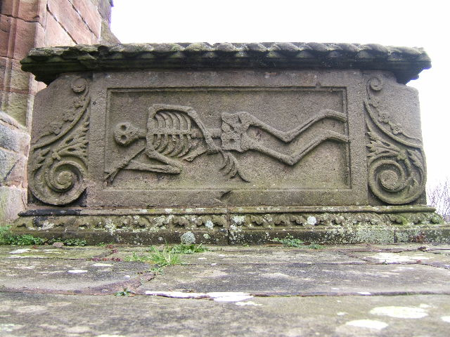 Vault Tombchest of the Hurleston family There are two recumbent skeletons on this tomb, this one has five pairs of ribs, the other, six, representing male and female.Link